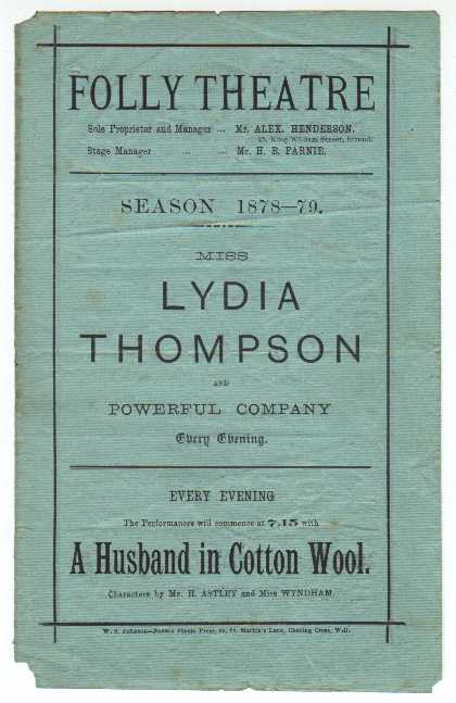 Folly Theatre programme for 1878-79.